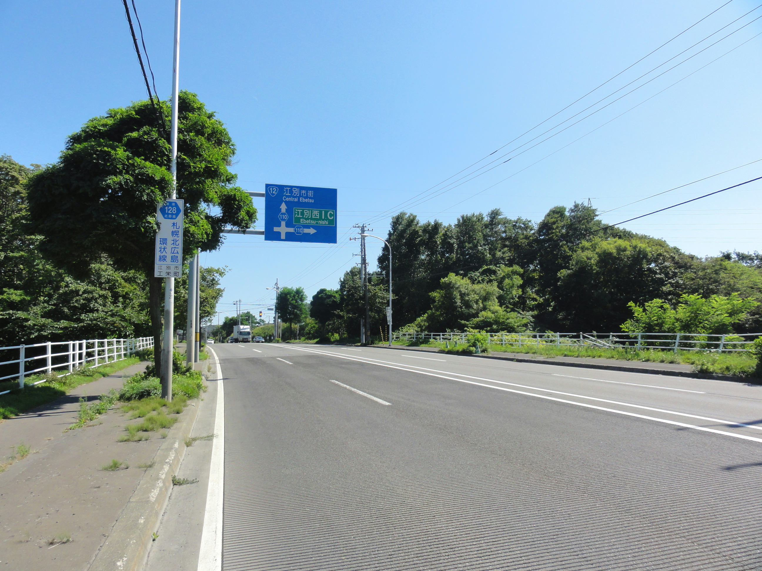 Hokkaido Pref Route 128 (Ebetsu, Hokkaidō)